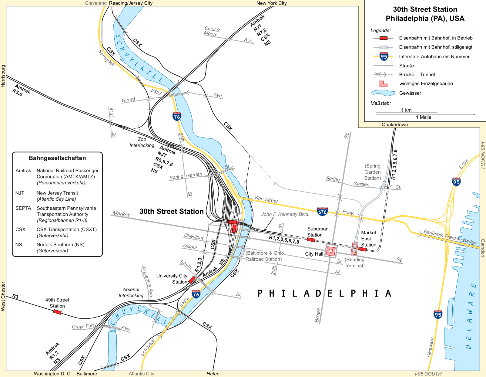 General map of 30th Street Station, Philadelphia, Pennsylvania, United States (German version).